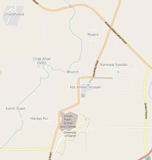 Location of Kot Ameer Hussain, Ranewal Syedan, Hardas Pur, Hafiz Hayat, Maajra, Bhurch, Karim Daad, Chak Khair Deen, & Chodhowal on map.